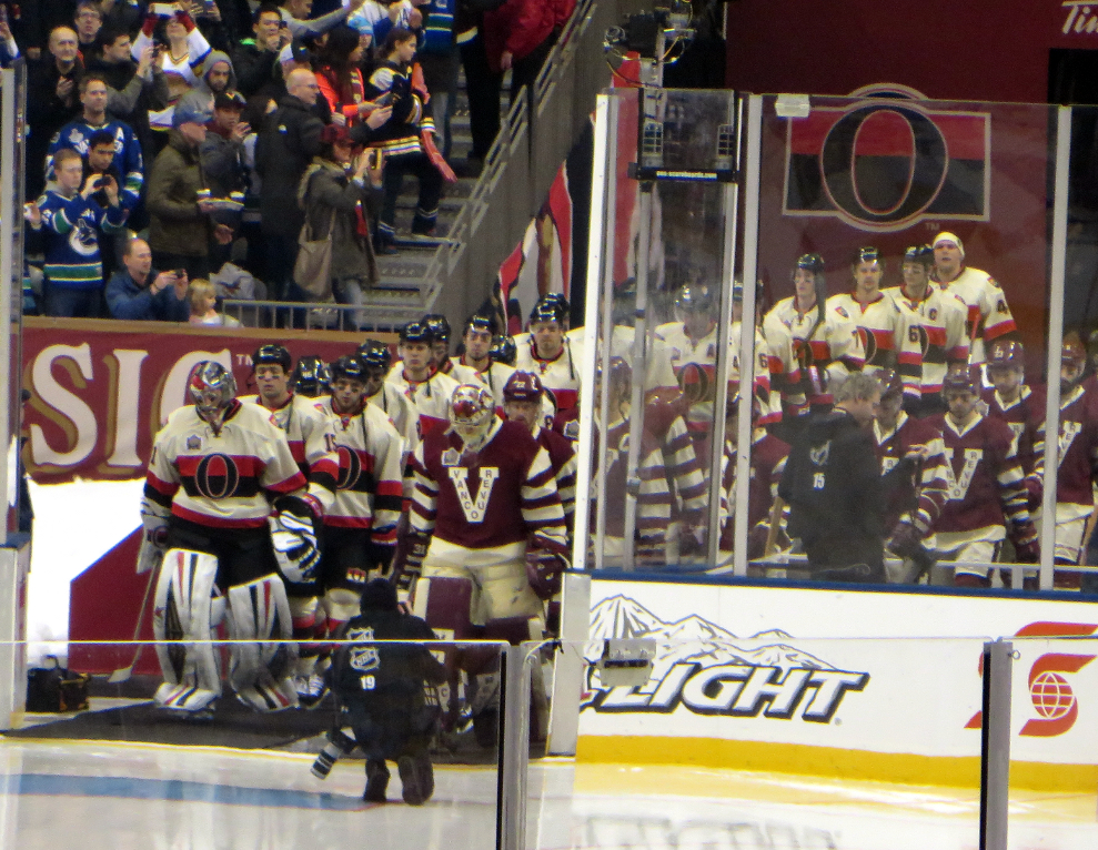 Players enter the ice prior to the 2014 Heritage Classic at BC Place in Vancouver. The goaltenders at the lead are Craig Anderson for Ottawa and Eddie Lack for Vancouver.